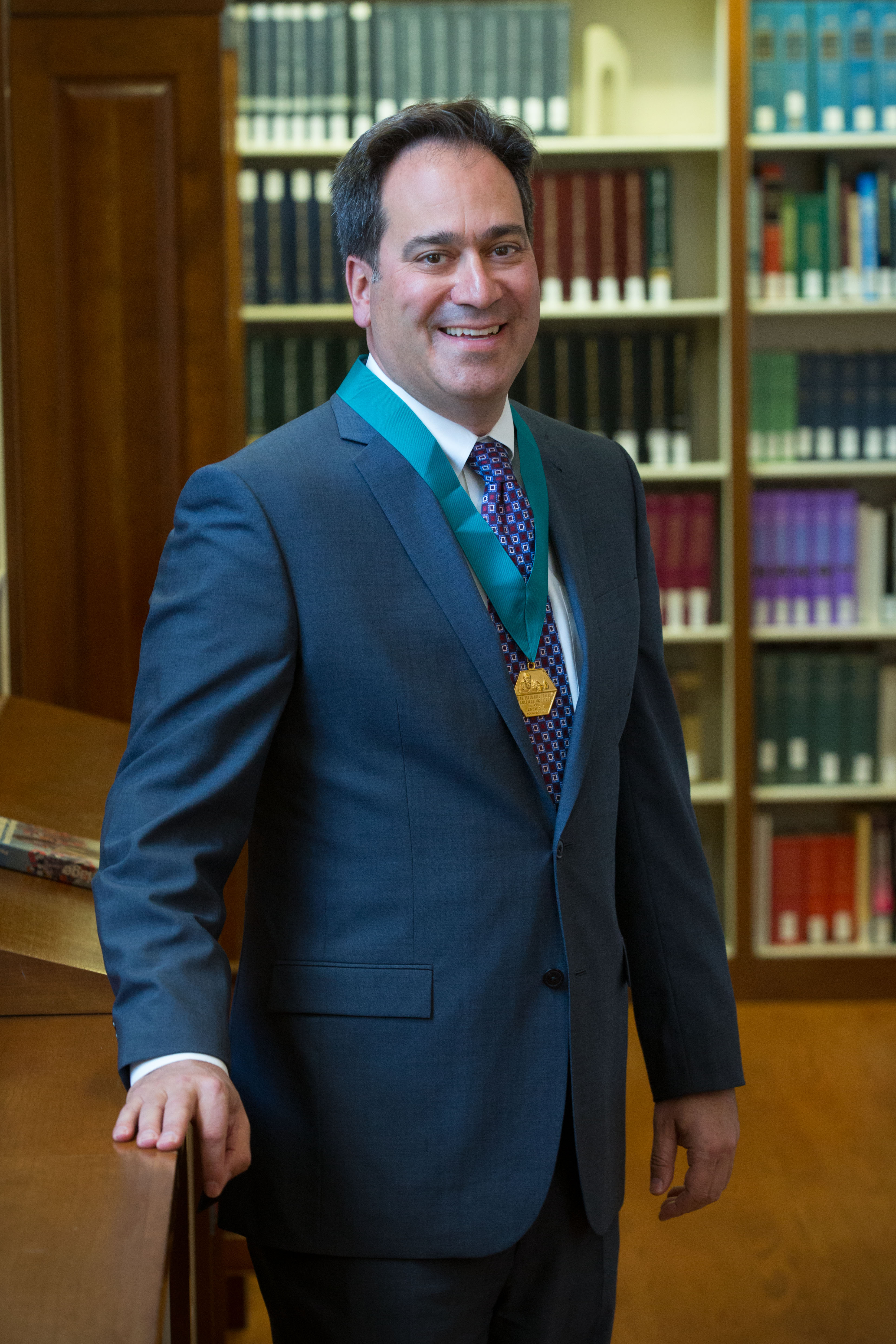 Photograph of Chad Mirkin, chemist and recipient of the 2016 AIC Gold Medal, 16 May 2016, at Heritage Day, Chemical Heritage Foundation, Philadelphia, PA, USA.